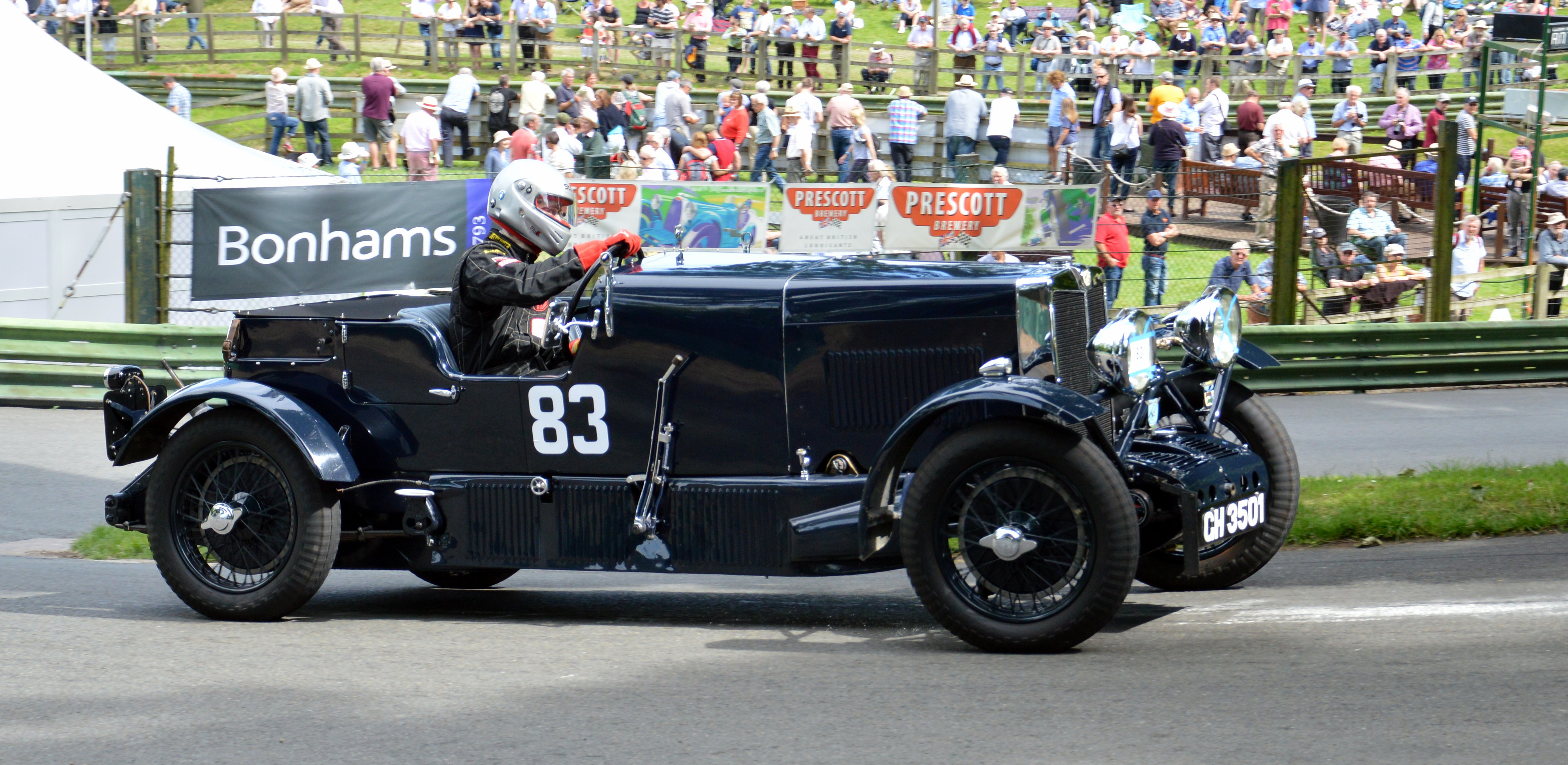 Andrew Radford takes his 2468cc 1930 MG 18/100 MkIII Tigress through a timed run at the VSCC hill climb at Prescott.